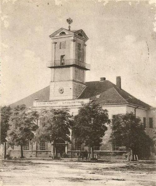 Grodek Jagiellonski - Building of judgement